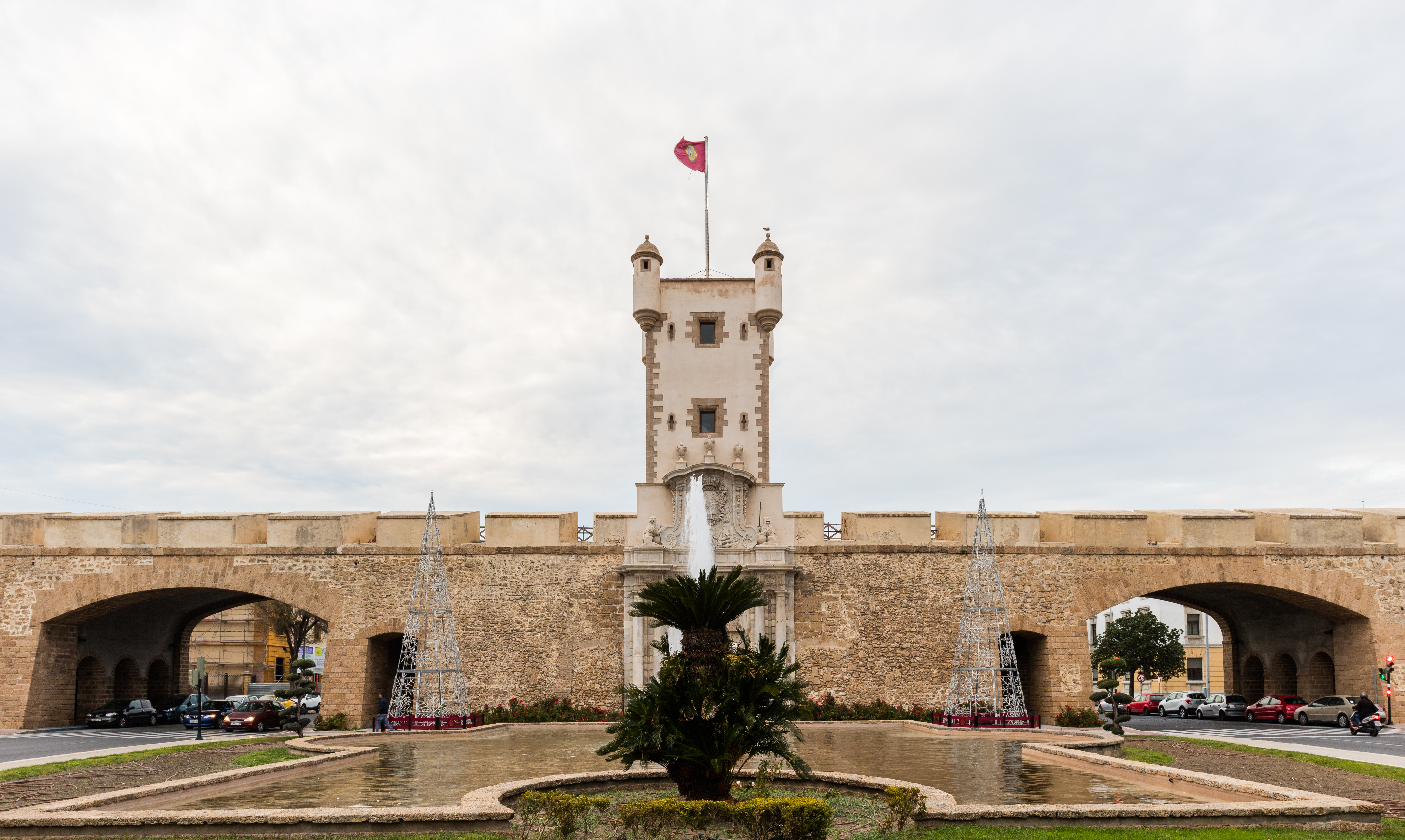 Puerta de Tierra, Cádiz, Spain